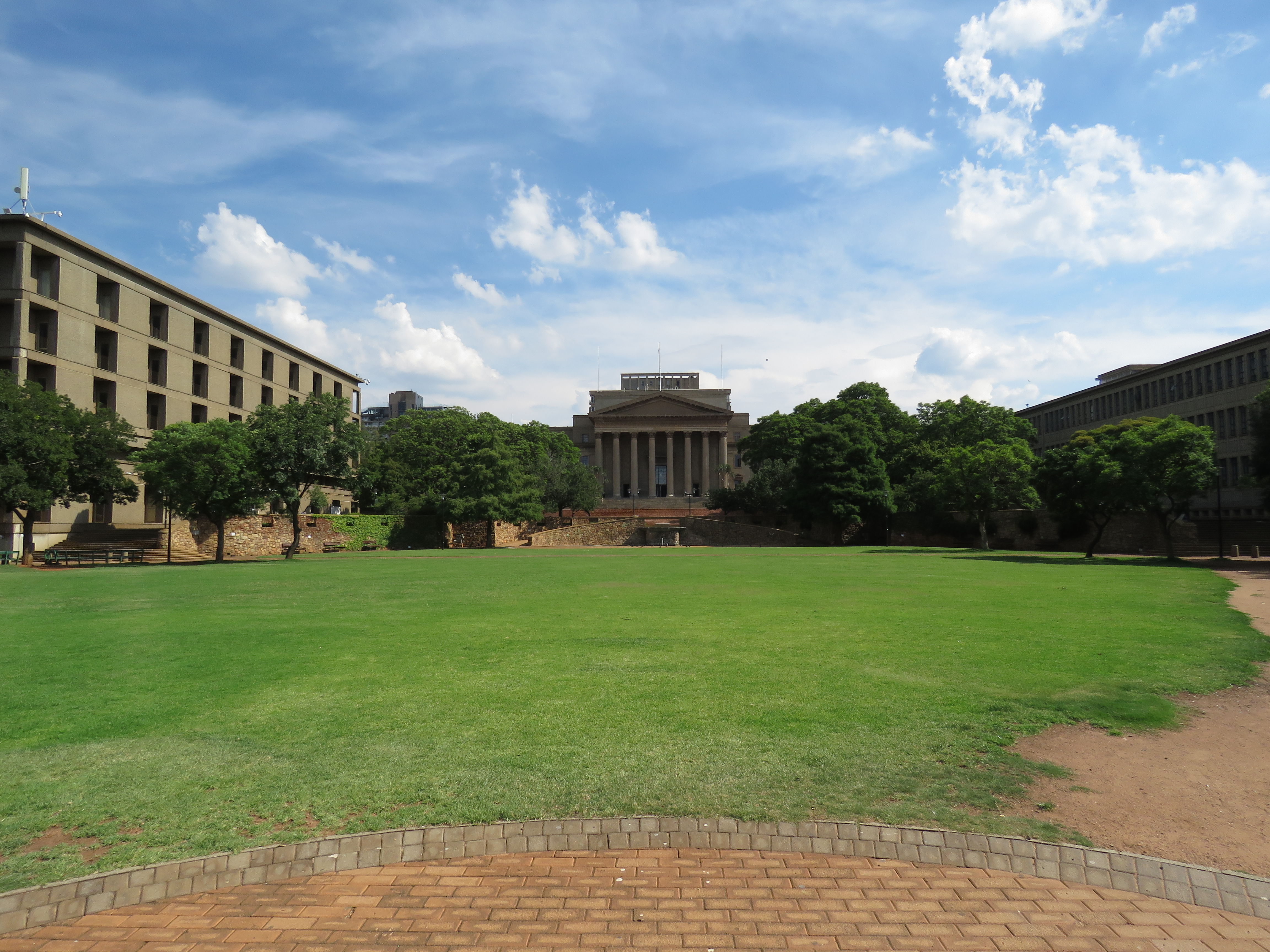 Library Lawns of the University of the Witwatersrand, with the Great Hall in the background.